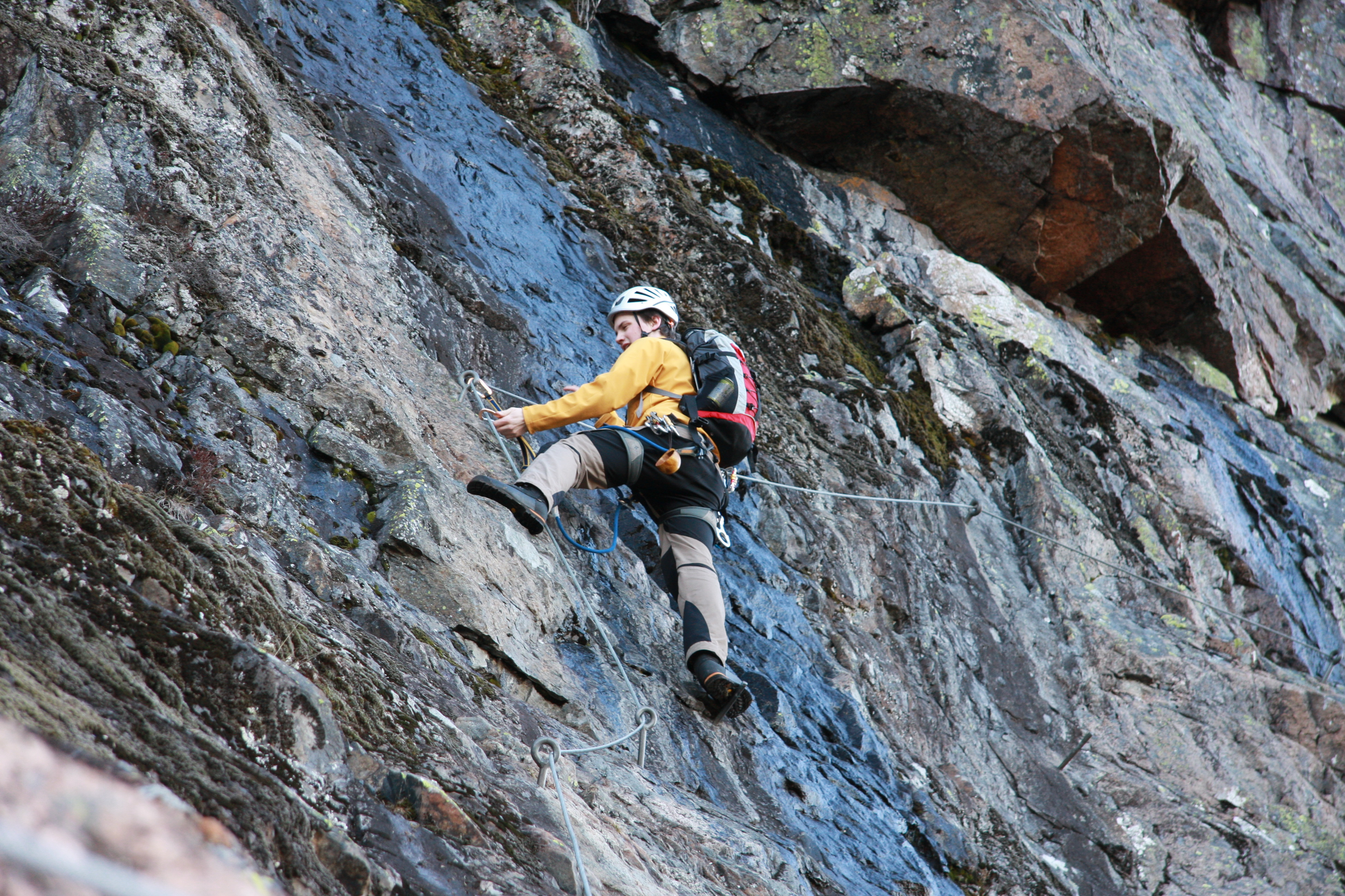 Via Ferrata Skuleberget